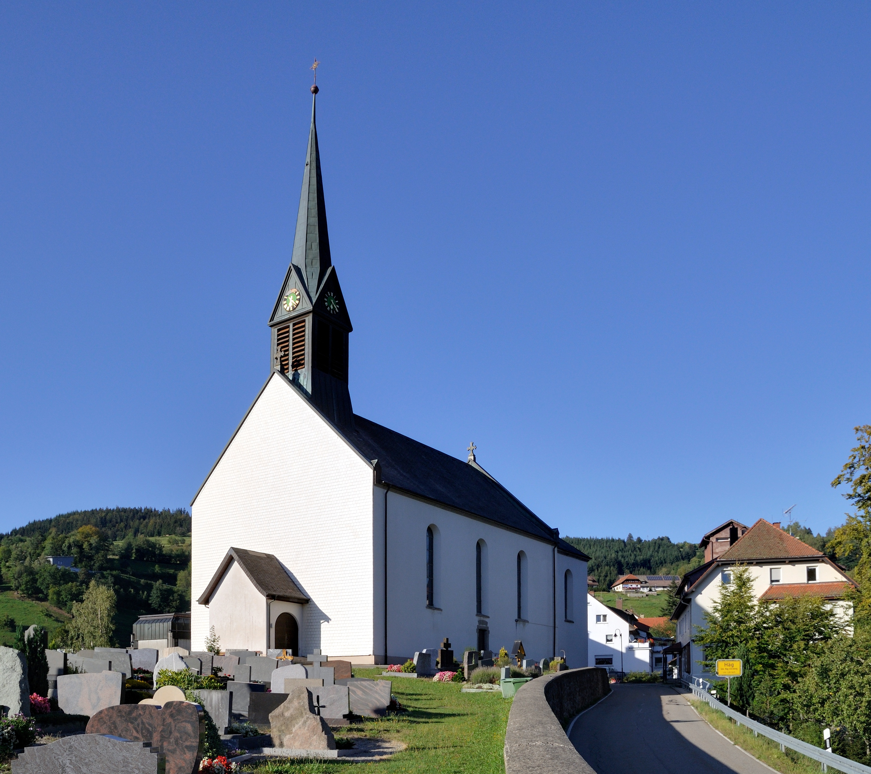 Häg: Saint Michaels Church